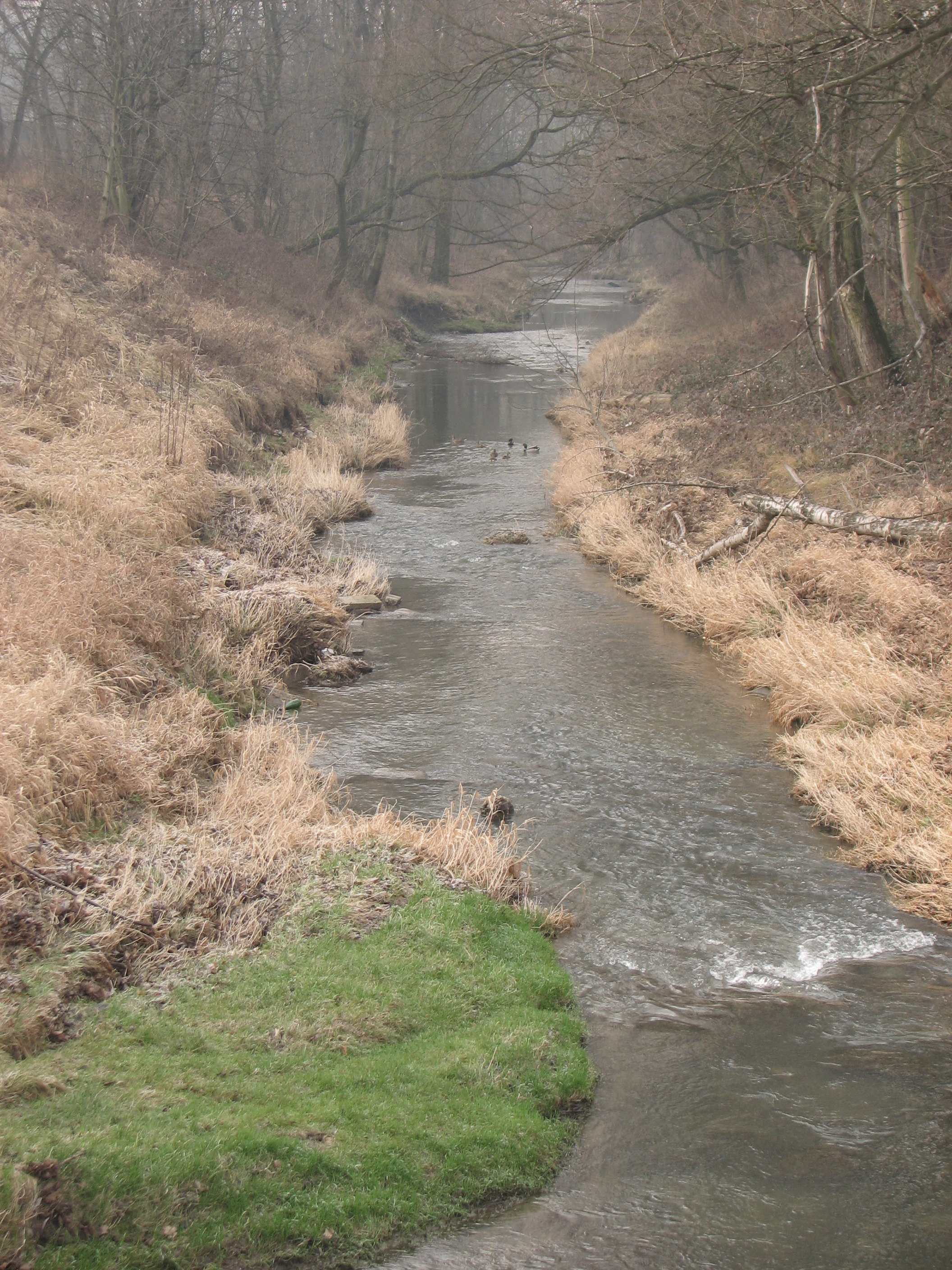 Bobrowka river (Olza tributary) in Cieszyn